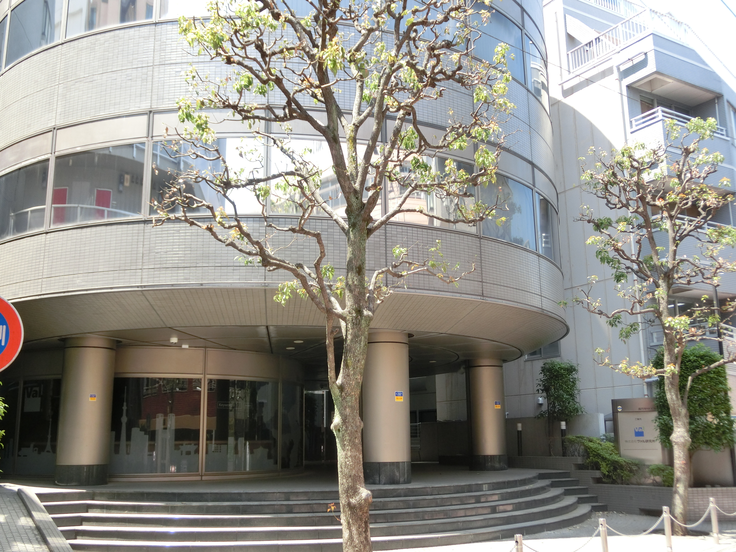 Val Laboratory Corporation Head Office